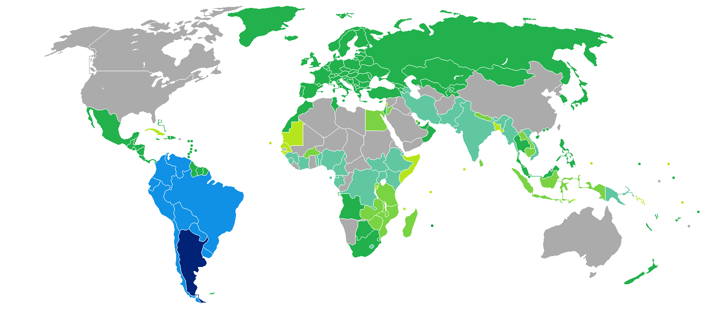 Visa requirements for Argentine citizens Argentina ID card travel Visa free access Visa on arrival eVisa Visa available both on arrival or online Visa required